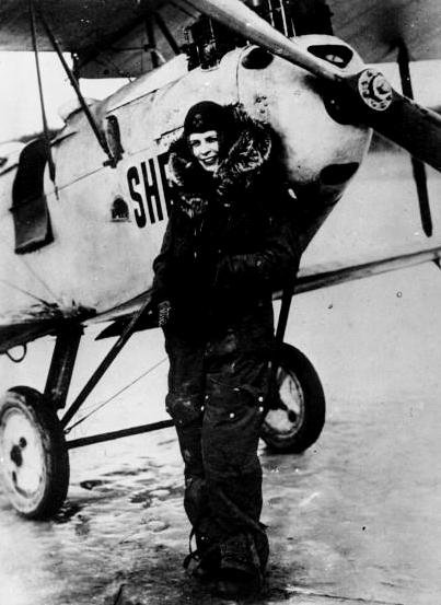 Photograph of Eva Dickson